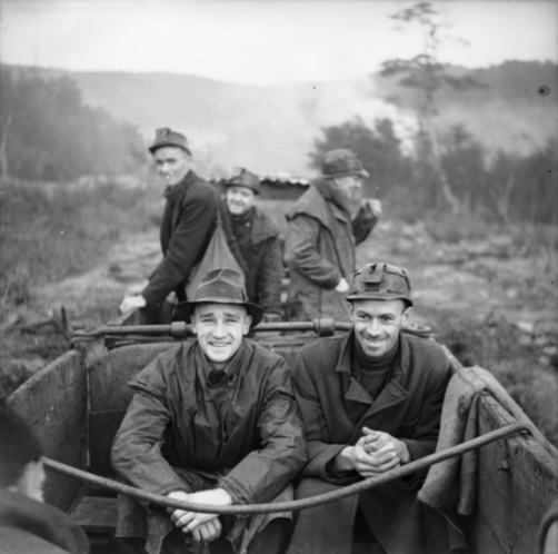 Coal miners being transported from the Charming Creek mine at the end of a working day. Photograph taken in 1945 by John Pascoe. ATL 1-4-001229-F